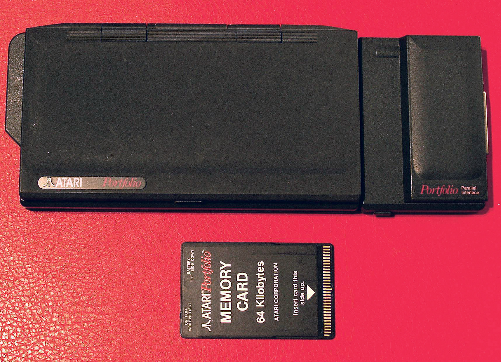 ATARI-Portfolio with Memorycard and Parallel Interface